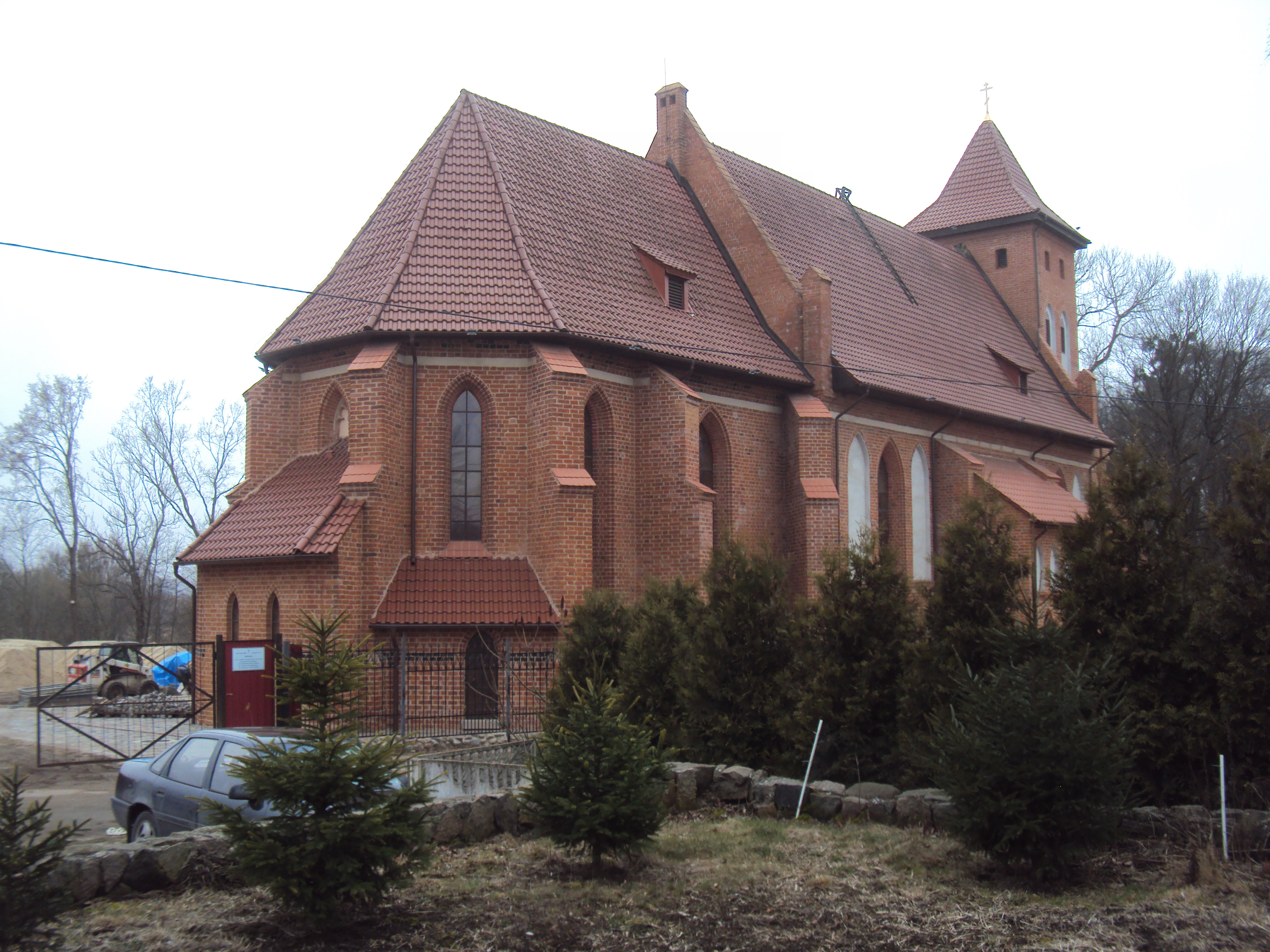 Arnau Church